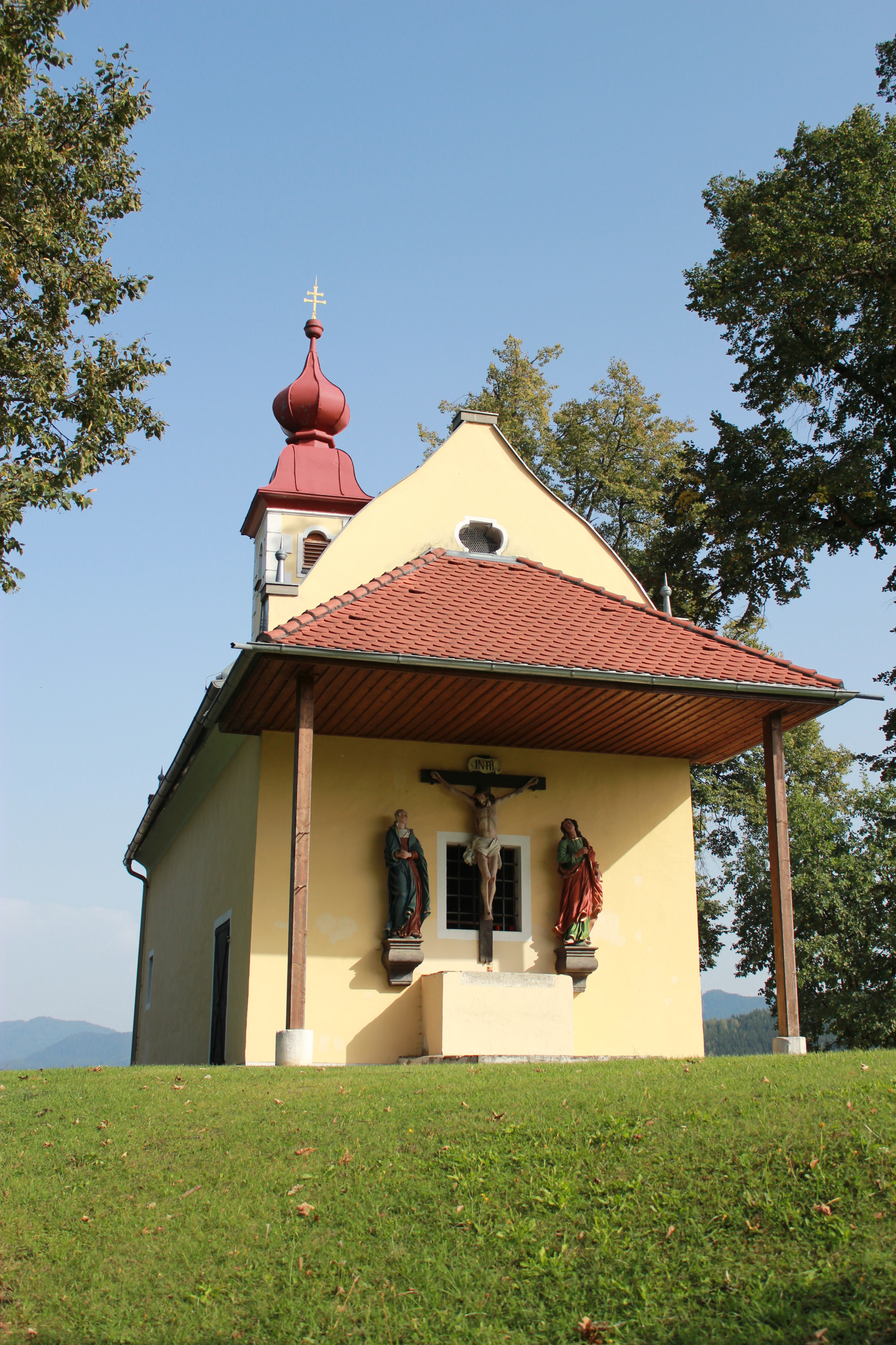 Calvary chapel in Sankt Veit an der Glan